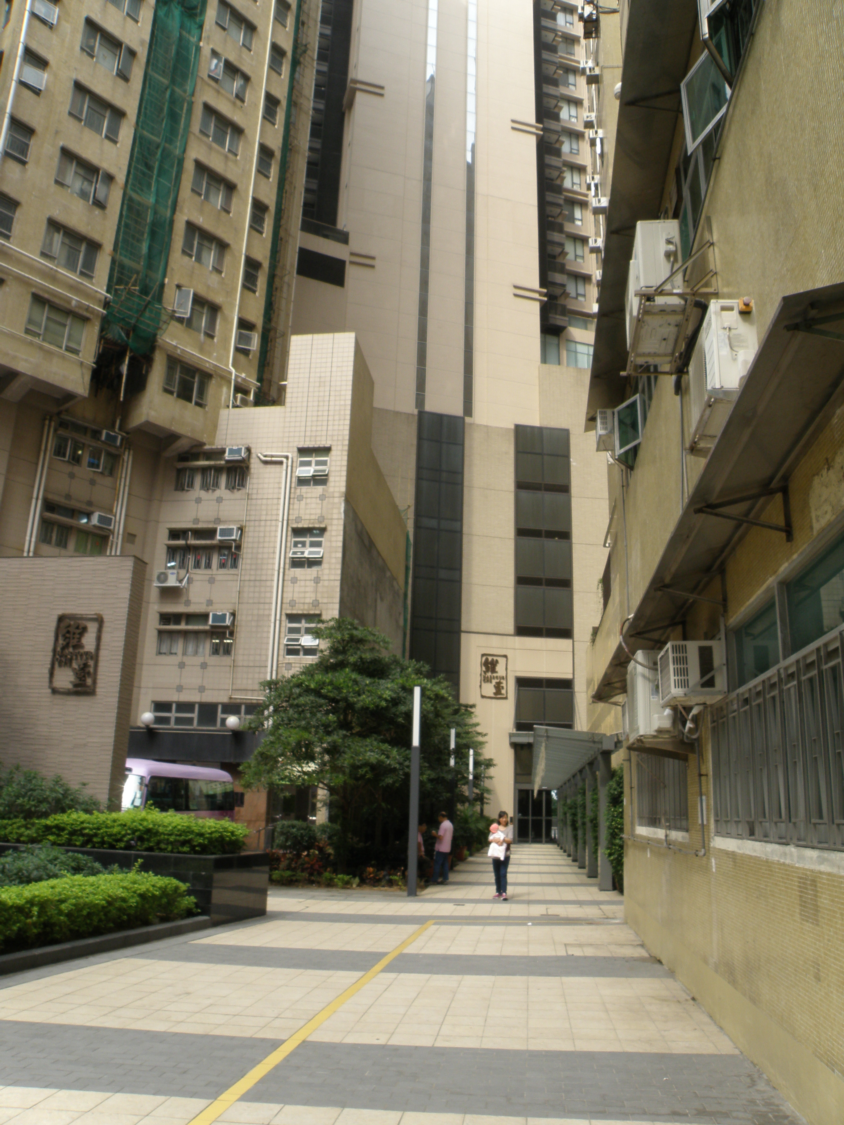 Harbour One in Shek Tong Tsui, Hong Kong.